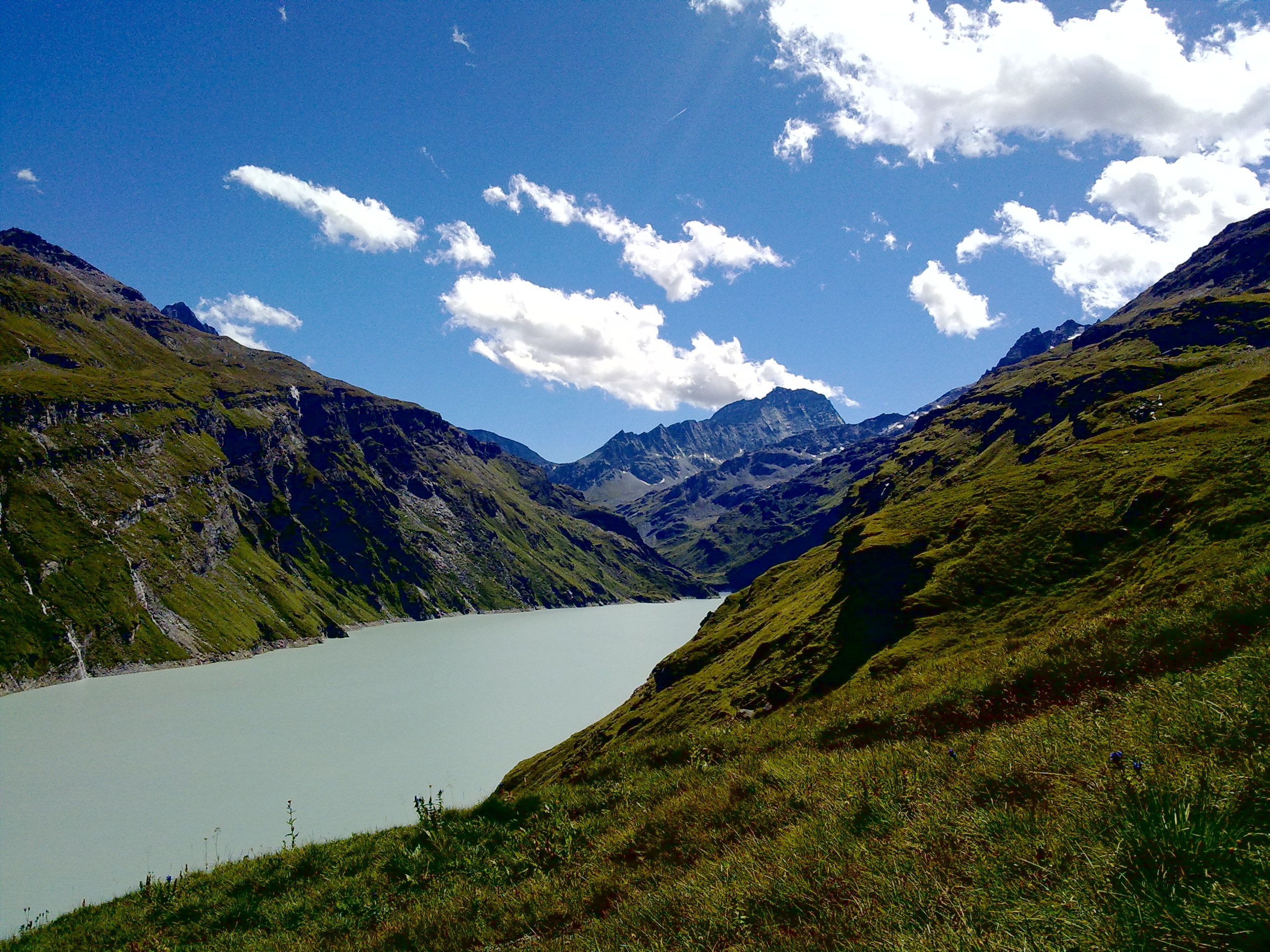 Lake Mauvoisin and Mont Gelé (background)